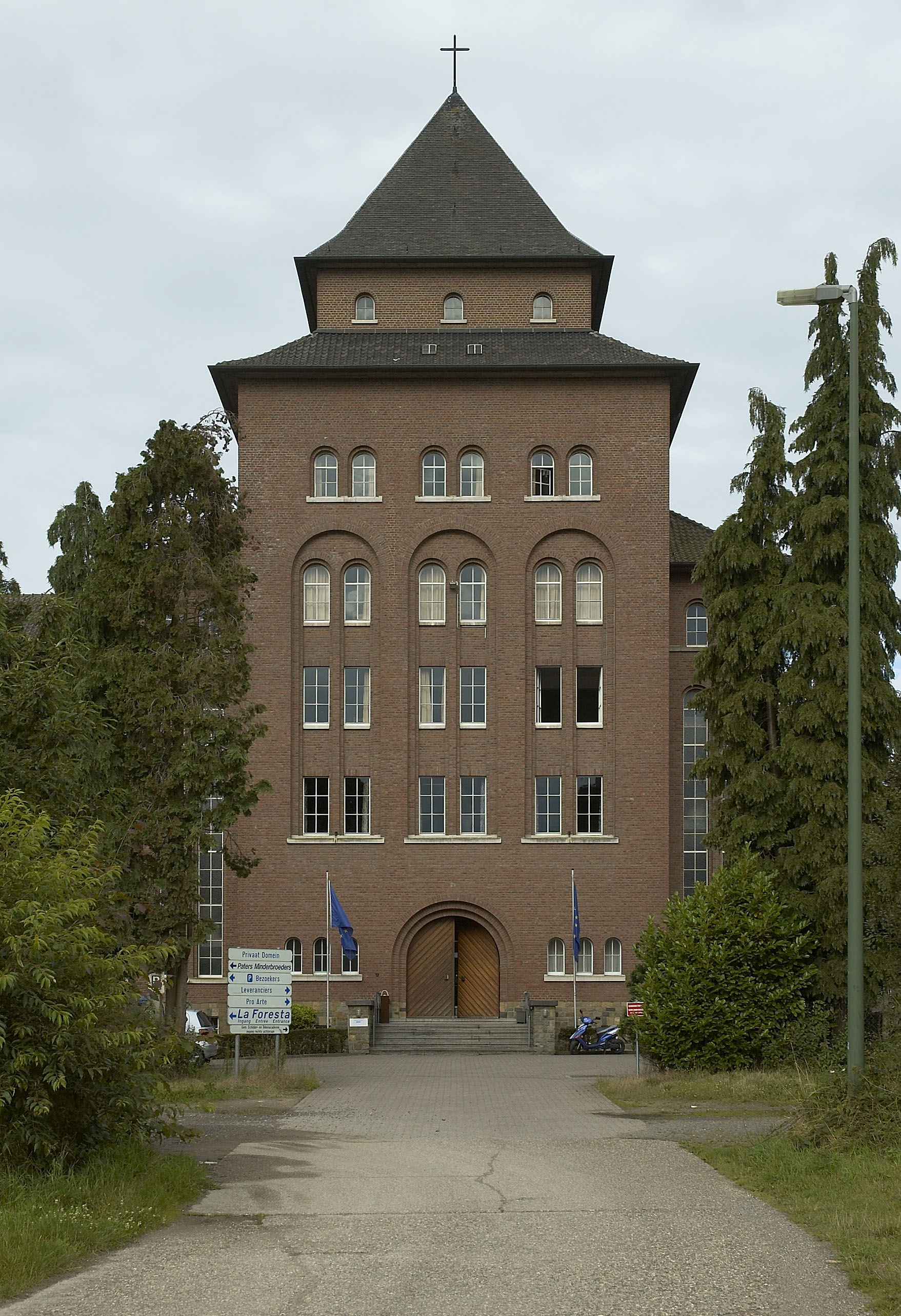 Monastery and center "La Foresta" in Vaalbeek, Belgium